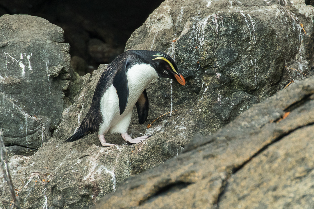 Fiordland Crested Penguin - Stewart Island - New ZealandFJ0A7957